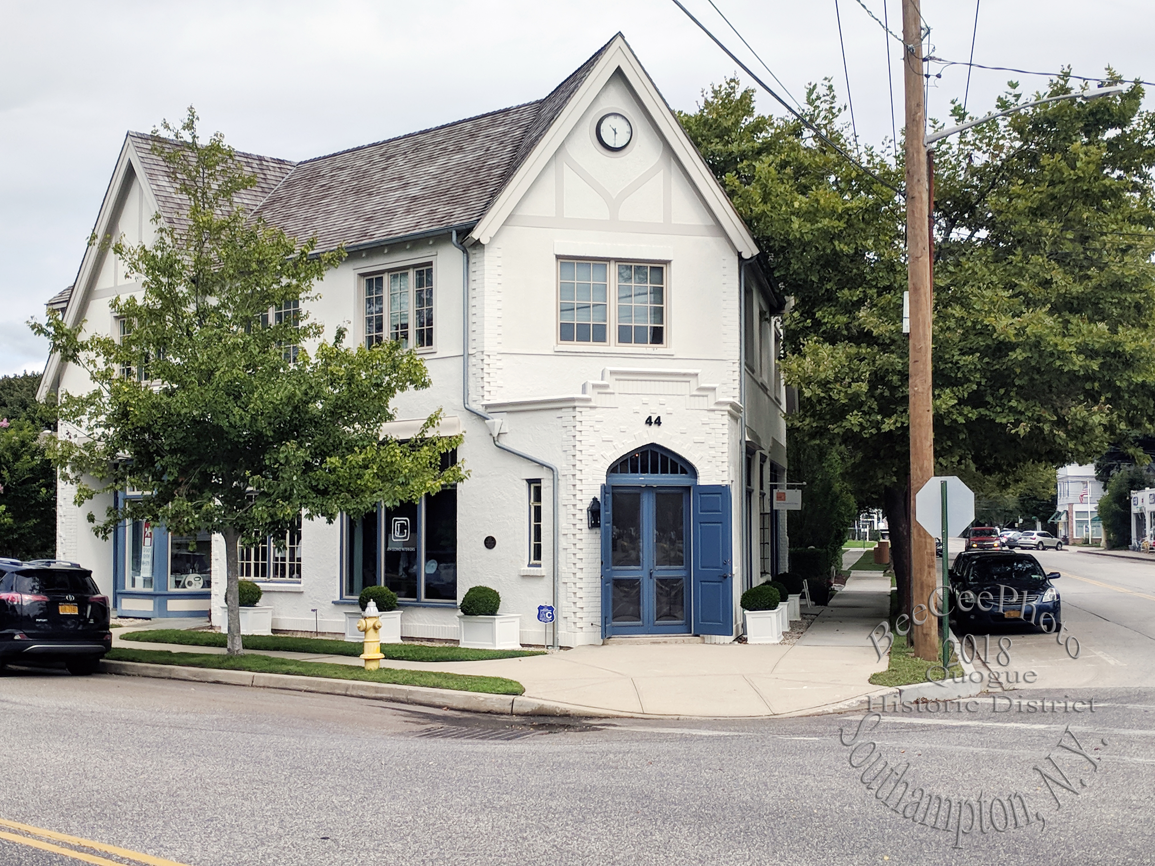 44 Quogue st, rebuilt 2nd story 2017